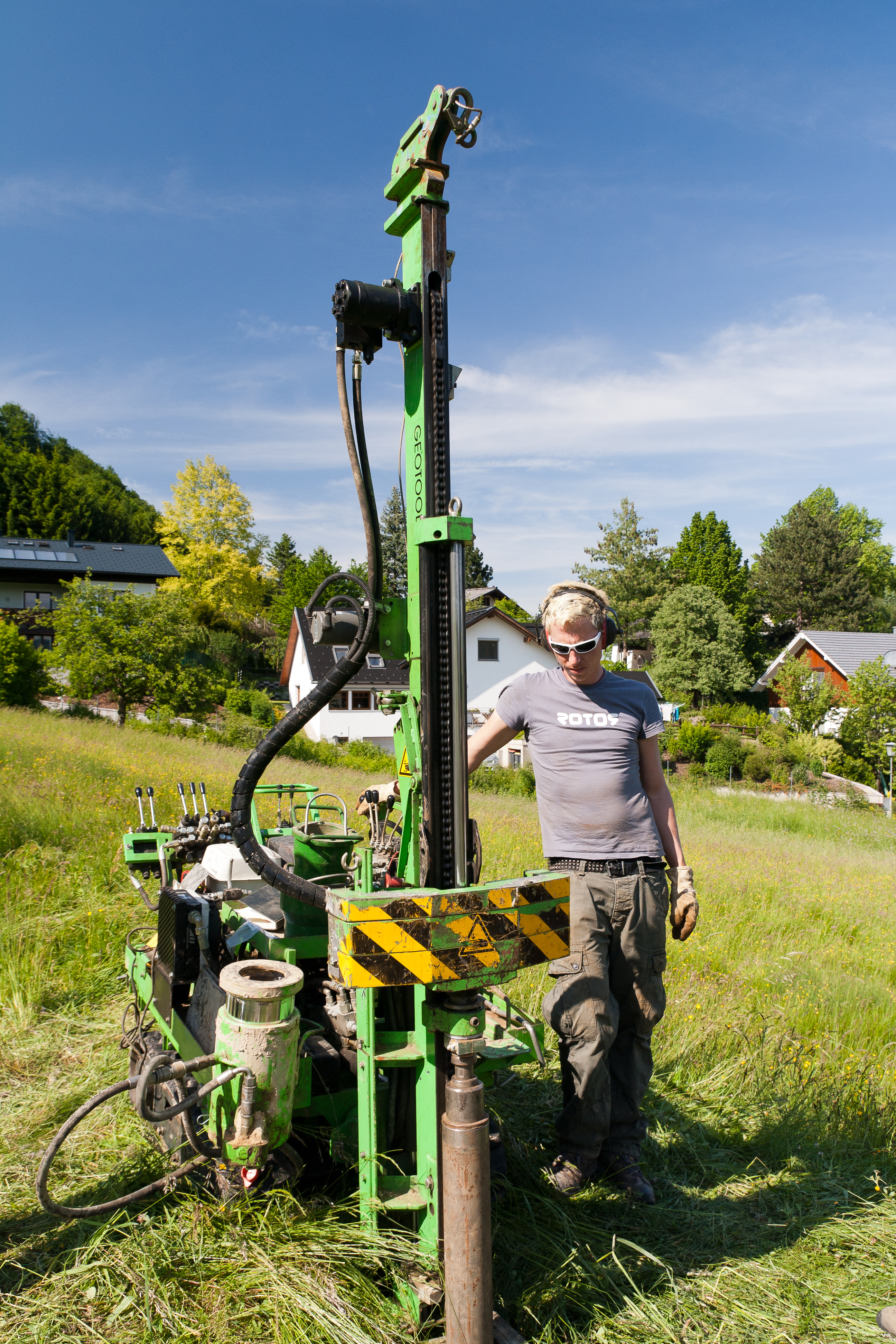 Percussion drilling on an active landslide